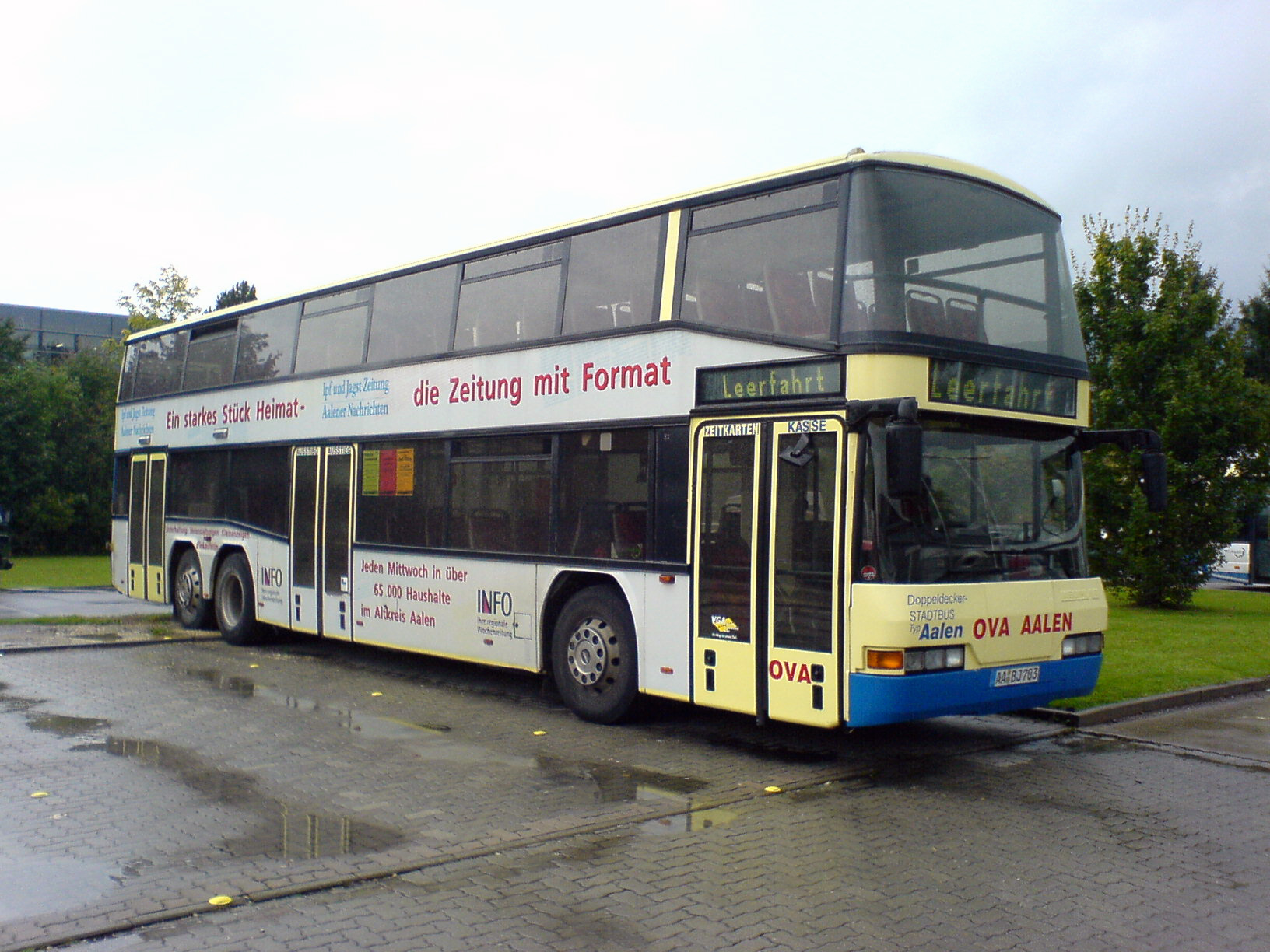 Neoplan double-decker bus (AA-BJ 783) of Omnibus-Verkehr Aalen in its garage Gartenstraße.